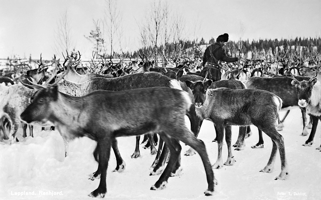 A herd of reindeer at Jukkasjärvi in Lapland. Renhjord vid Jukkasjärvi Lappland. Parish (socken): Jukkasjärvi Province (landskap): Lappland Municipality (kommun): Kiruna County (län): Norrbotten Photograph by: T. Dahllöf. Almquist & Cöster Date: 1930-1949 Format: Cliché, film with text Persistent URL: Read more about the photo database (in english)